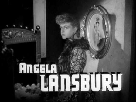 Screenshot of Angela Lansbury in the trailer for the film Gaslight (1944)